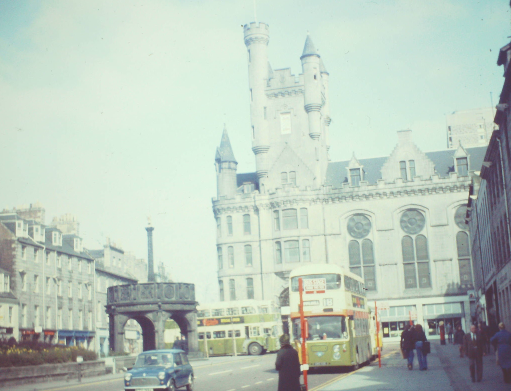 Castlegate, Aberdeen. Mid 1970s view of the Castlegate, when it was used as a bus terminus and before the ancient street was paved over with plainstanes, becoming a pedestrianised plaza. The prominent buildings are the Mercat Cross and the Salvation Army... more